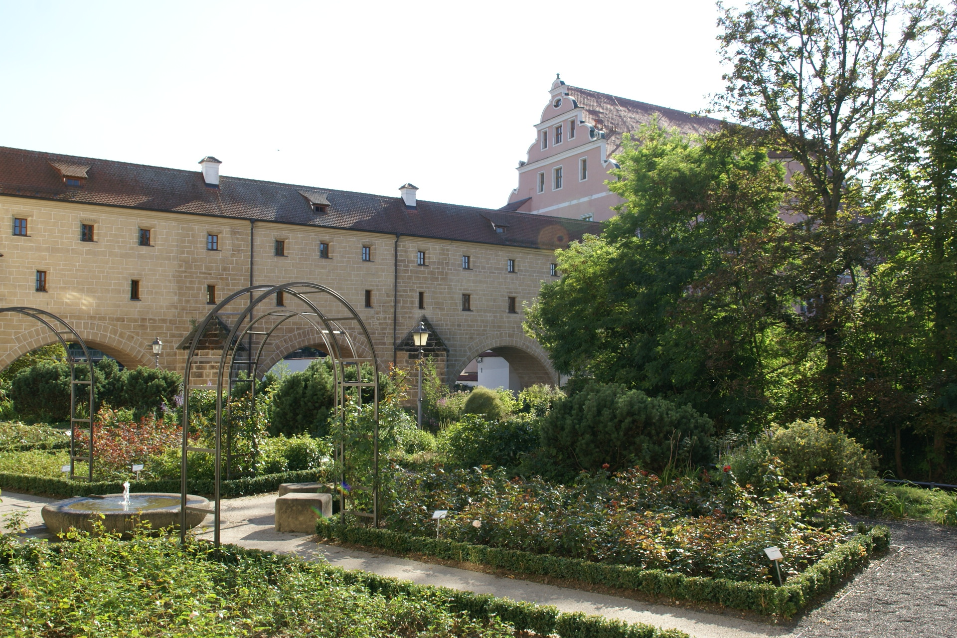 The "Stadtbrille" (the city spectacles"), a city gate over the river Vils in Amberg, Germany